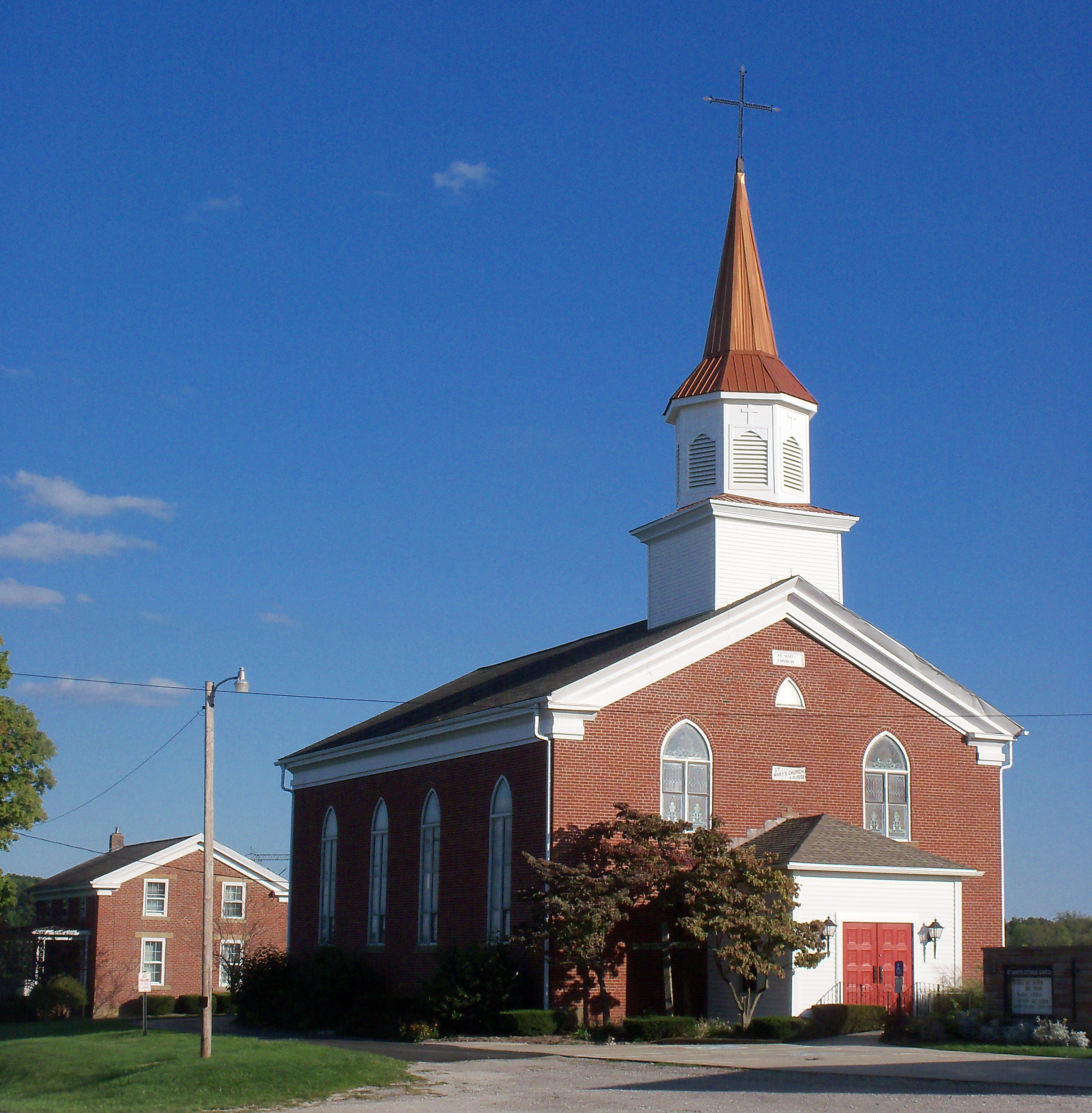 St. Mary's Catholic Church of Morges, Ohio is listed on the NRHP. In September, 2012 a new bell (used, but functional), was hung in the bell tower, and old, cracked bells were removed. A new roof and shutters, along with structural work were installed on tower. 1851 church is viewed from northwest, with 1853 parish residence seen in left rear.